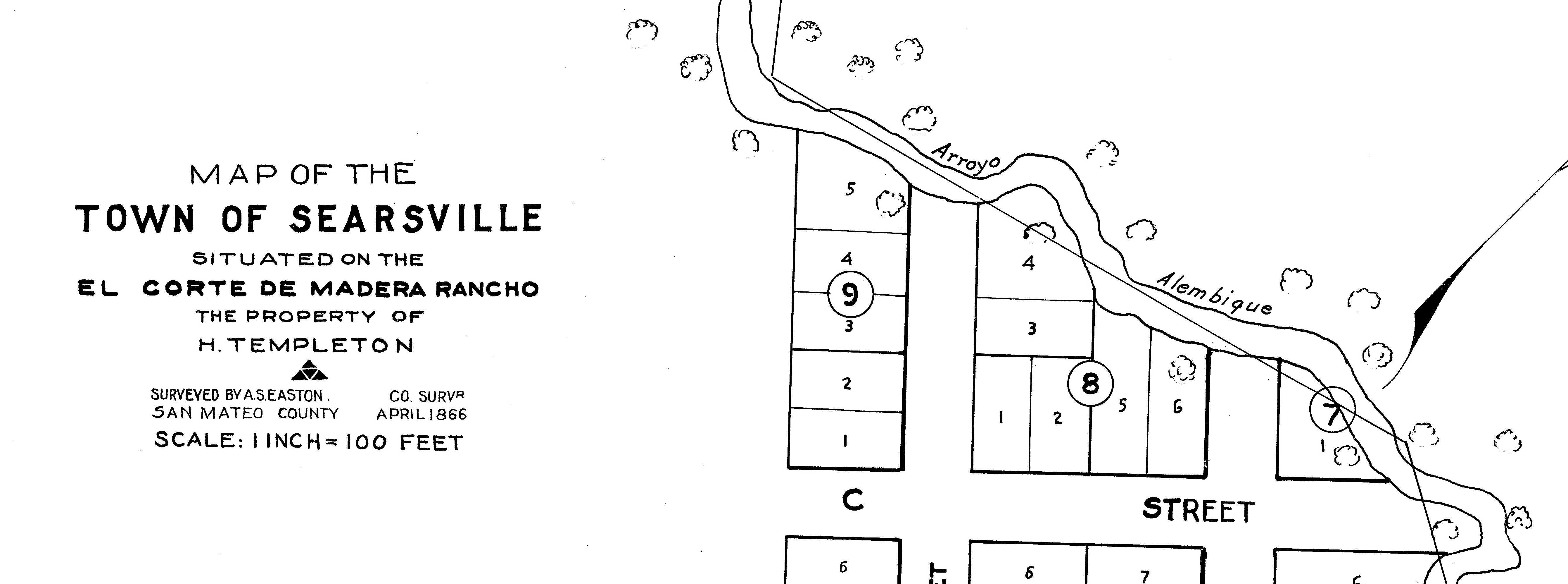 The tow only existed on paper with most of the lots never developed